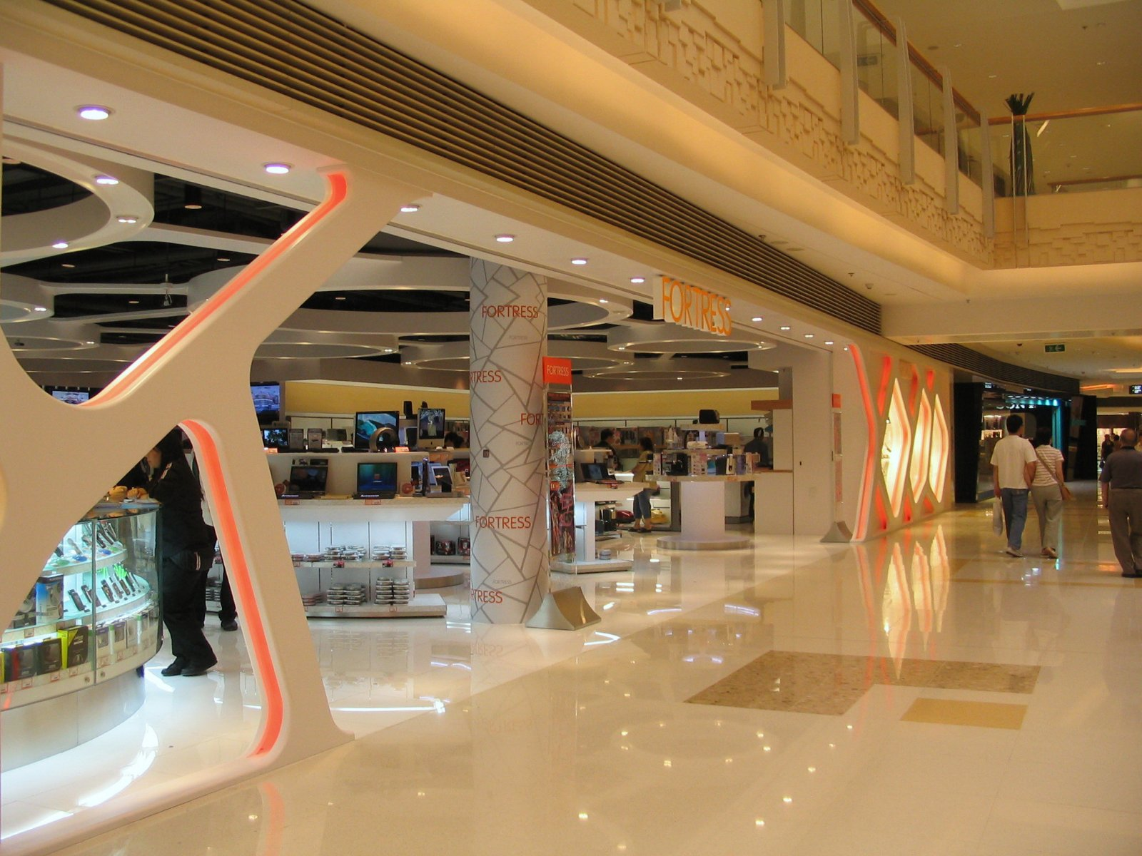 圓方-土區 EARTH Zone of Elements, Union Square